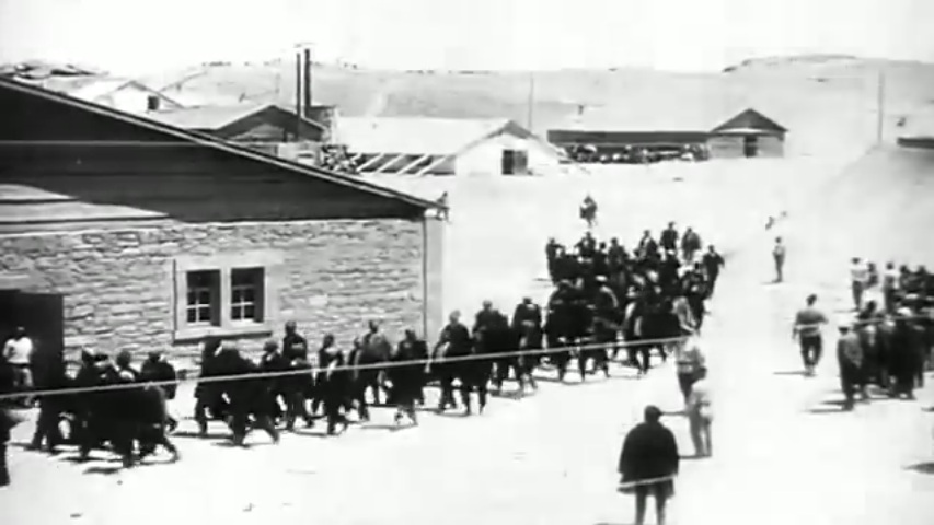 Prisoner-of-war camp in Nargen island